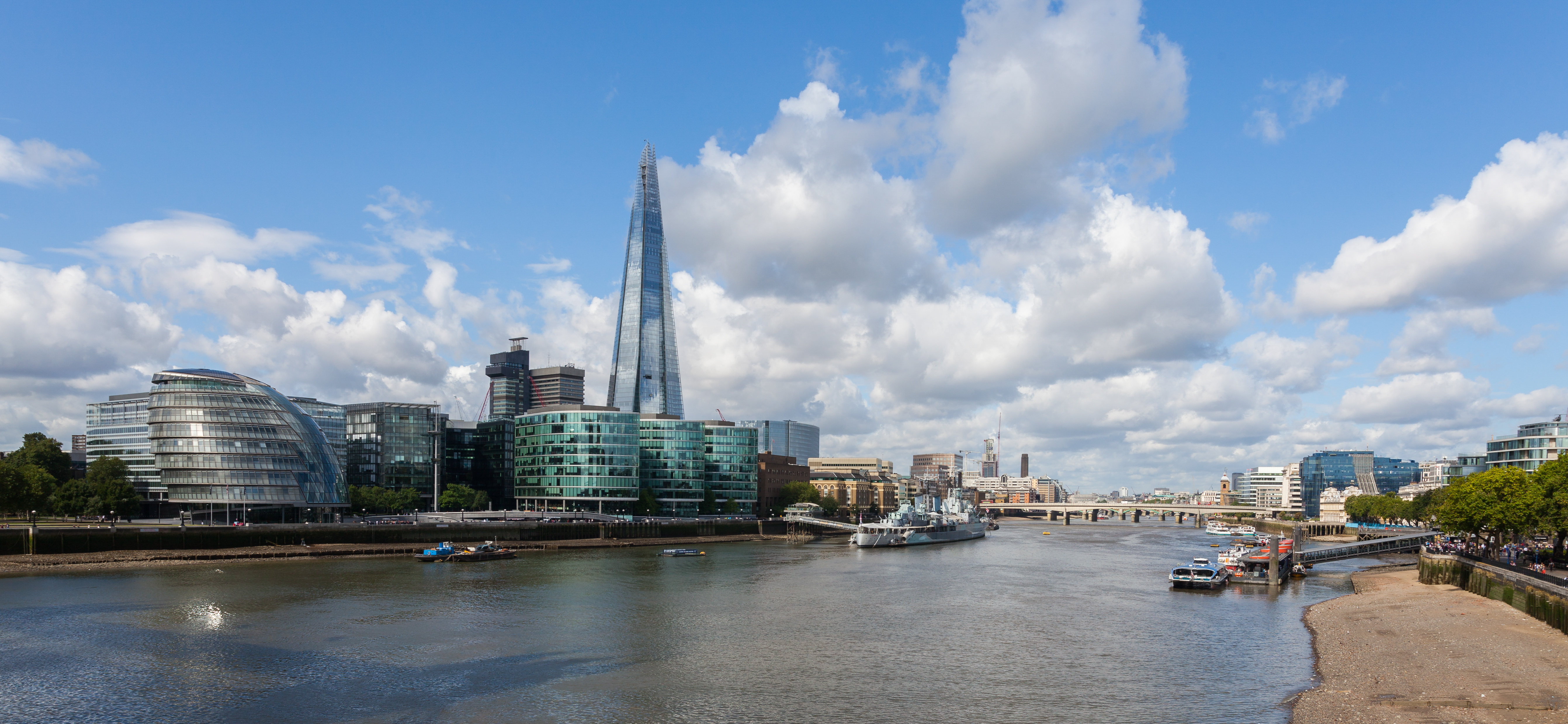 Thames River, London, England